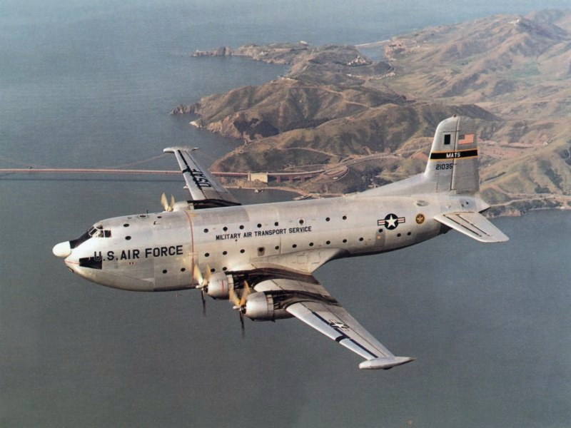 A U.S. Air Force Douglas C-124C Globemaster II (s/n 52-1035) in flight. Golden Gate Bridge and Marin County, CA in background. Original caption: "The Douglas C-124C Globemaster II was an airlift workhorse well into the Vietnam War."